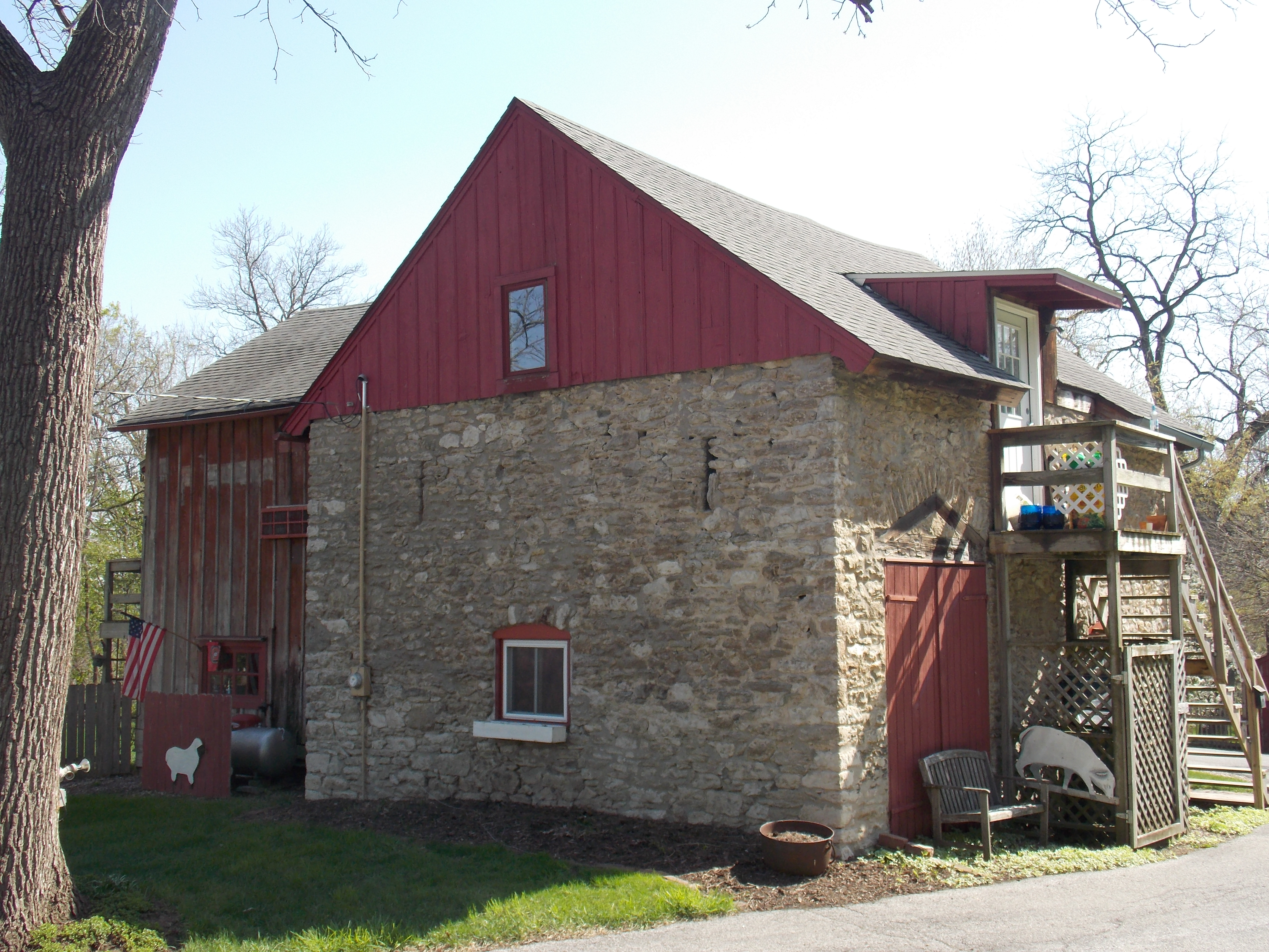 The Severin Miller barn is located in the west end of Davenport, Iowa behind the Severin Miller House.